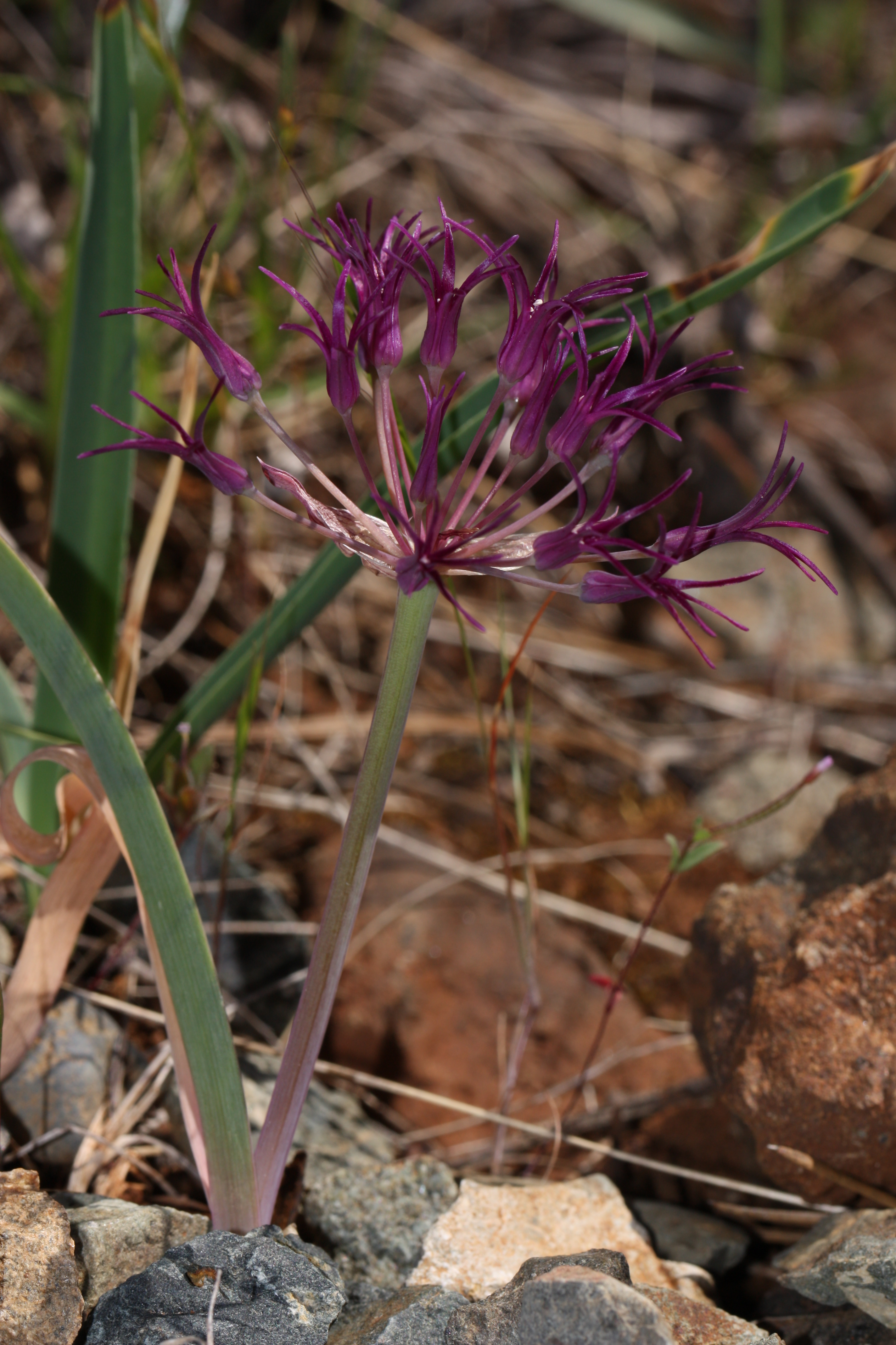 Scytheleaf Onion, Coast Flatstem Onion Viewpoint location: Little Falls Trail, T. J. Howell Botanical Drive Viewpoint elevation: 405 meter (1329 ft) Location source: Garmin GPSmap 60CSx Location Datum: WGS84